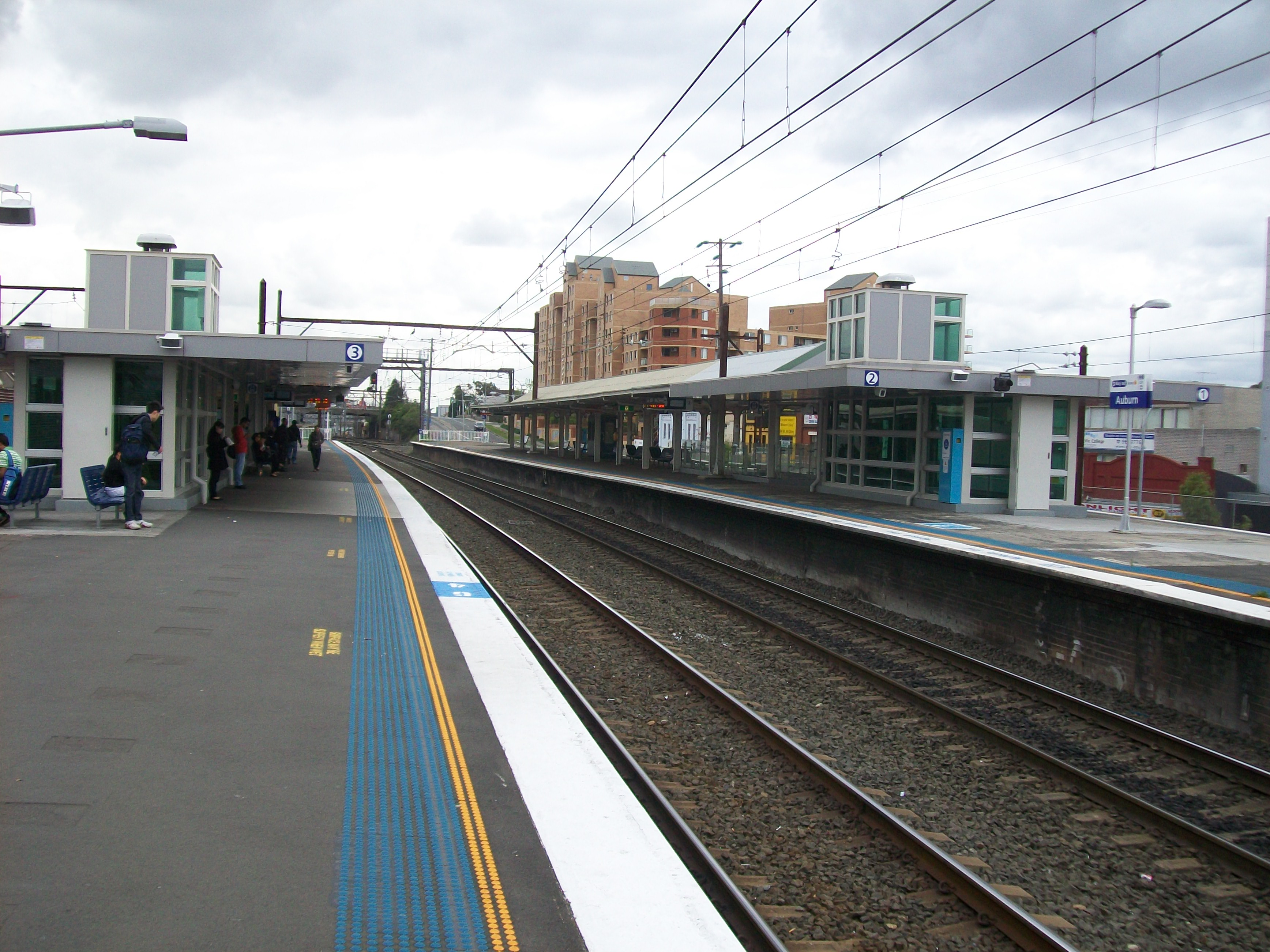 Auburn railway station platforms